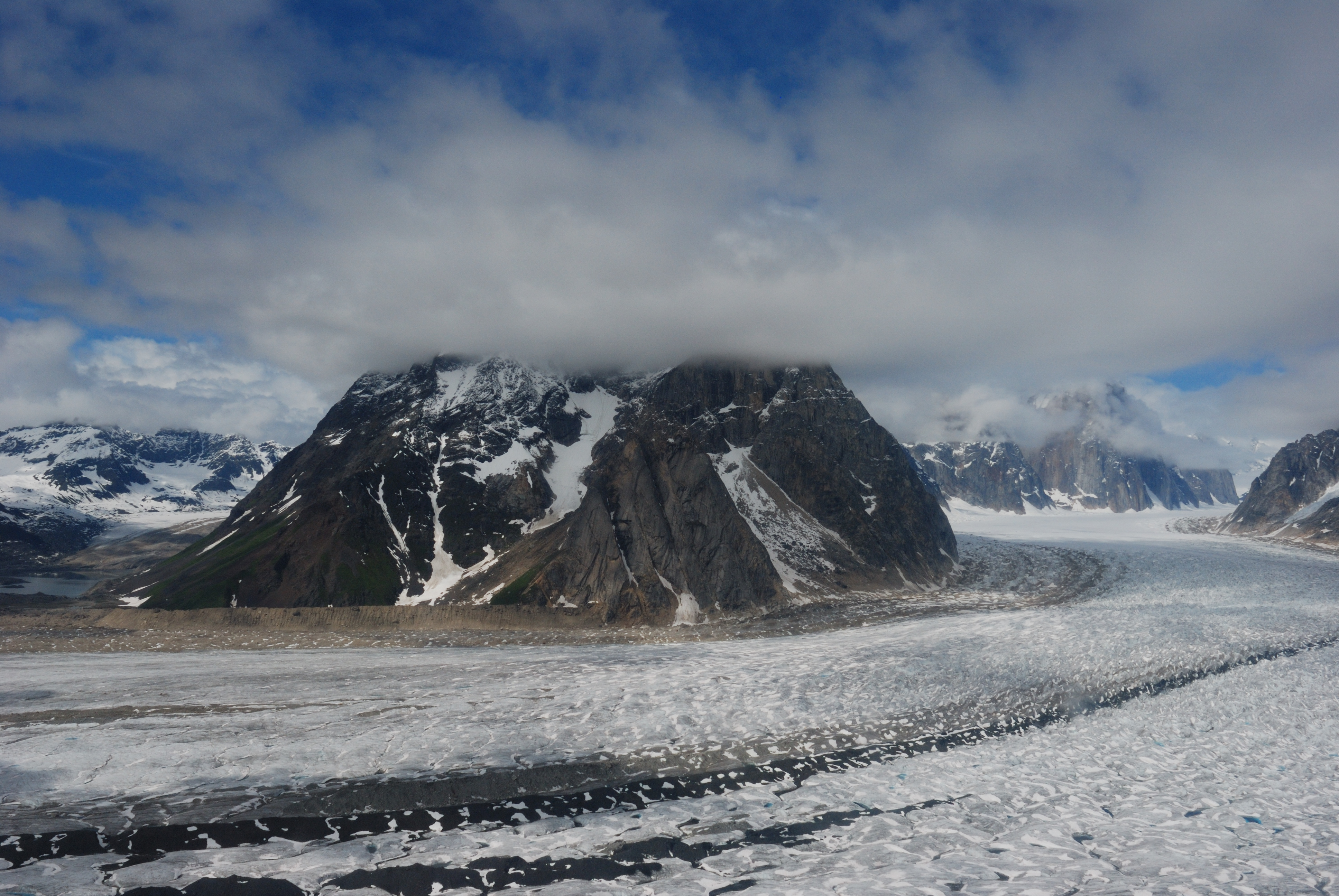 Ruth Glacier, Alaska